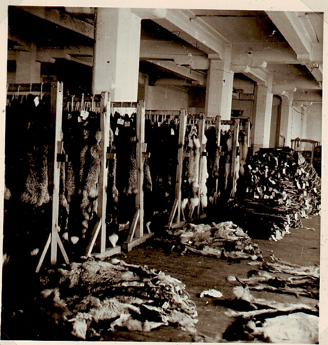 Impressions of a fur-skin grader at VEAB-Leipzig, DDR